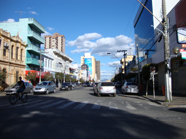 Doutor Lisboa Avenue, Pouso Alegre/MG - Brazil.